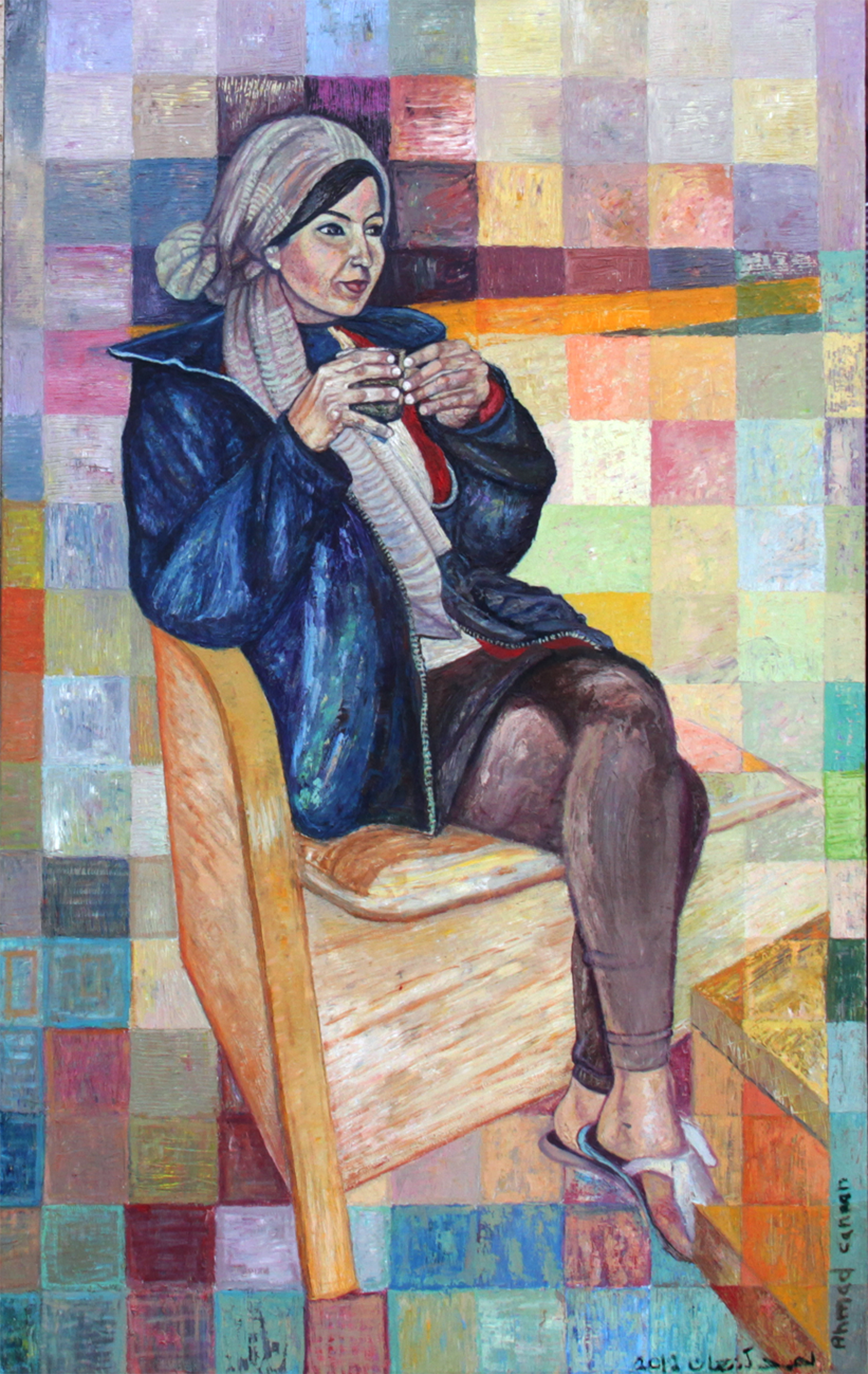 Ahmad Canaan: Tea with Mint ,Oil on Canvas 2012